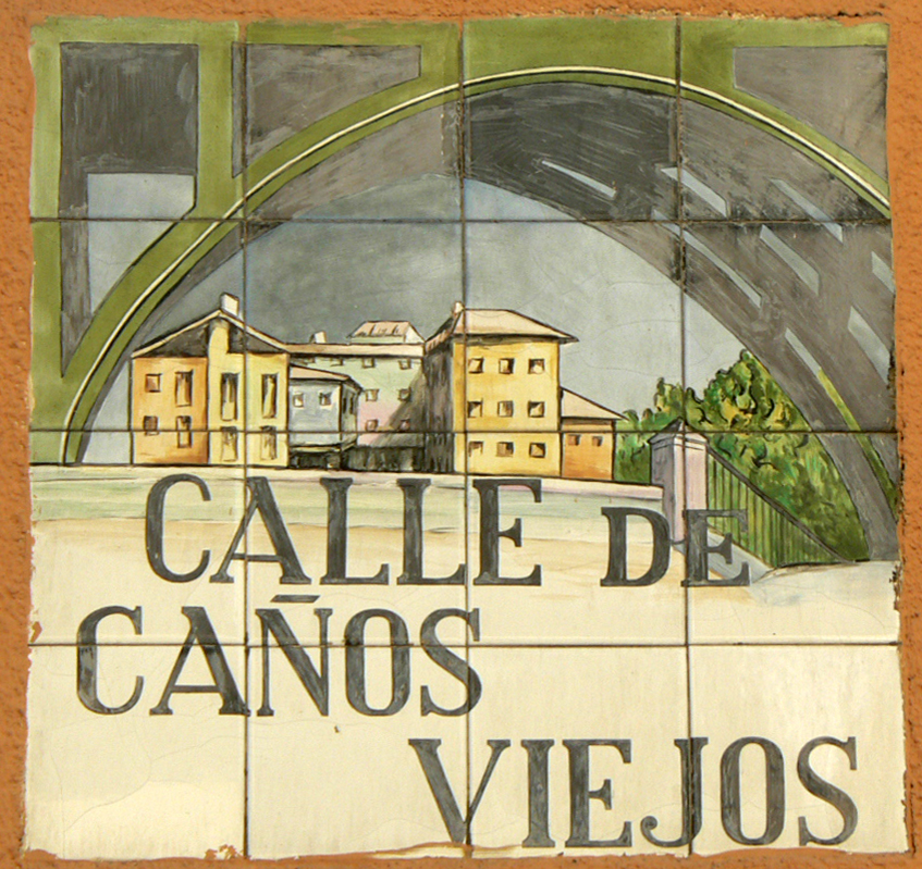 Sign of Calle de Caños Viejos (street, Centro district) in Madrid (Spain).